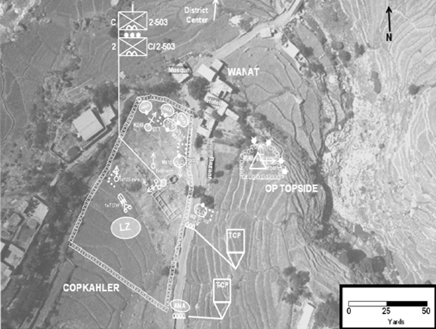 Combat Studies Institute's History titled: "Wanat: Combat Action in Afghanistan"